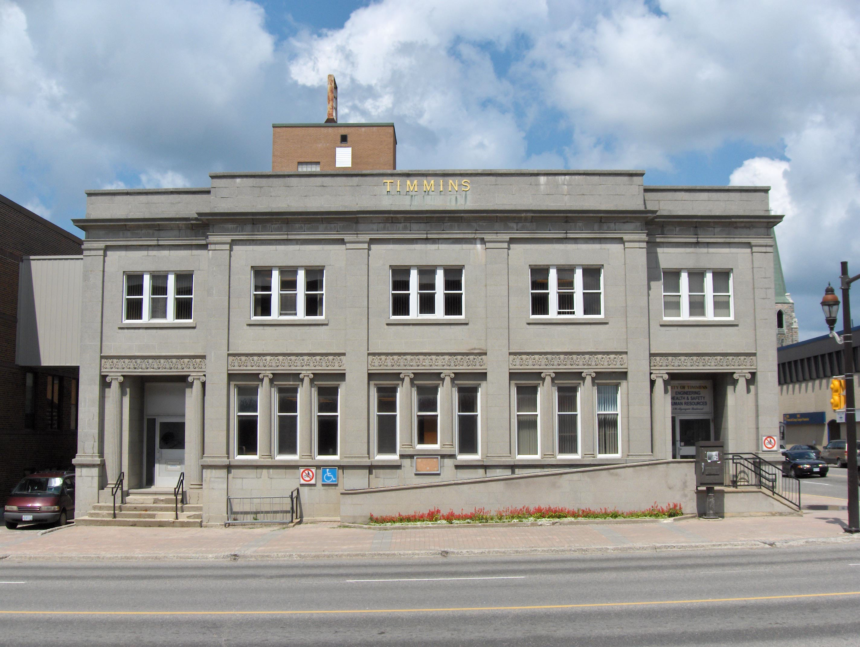 Author - John Monaghan Source - HP Photosmart R717